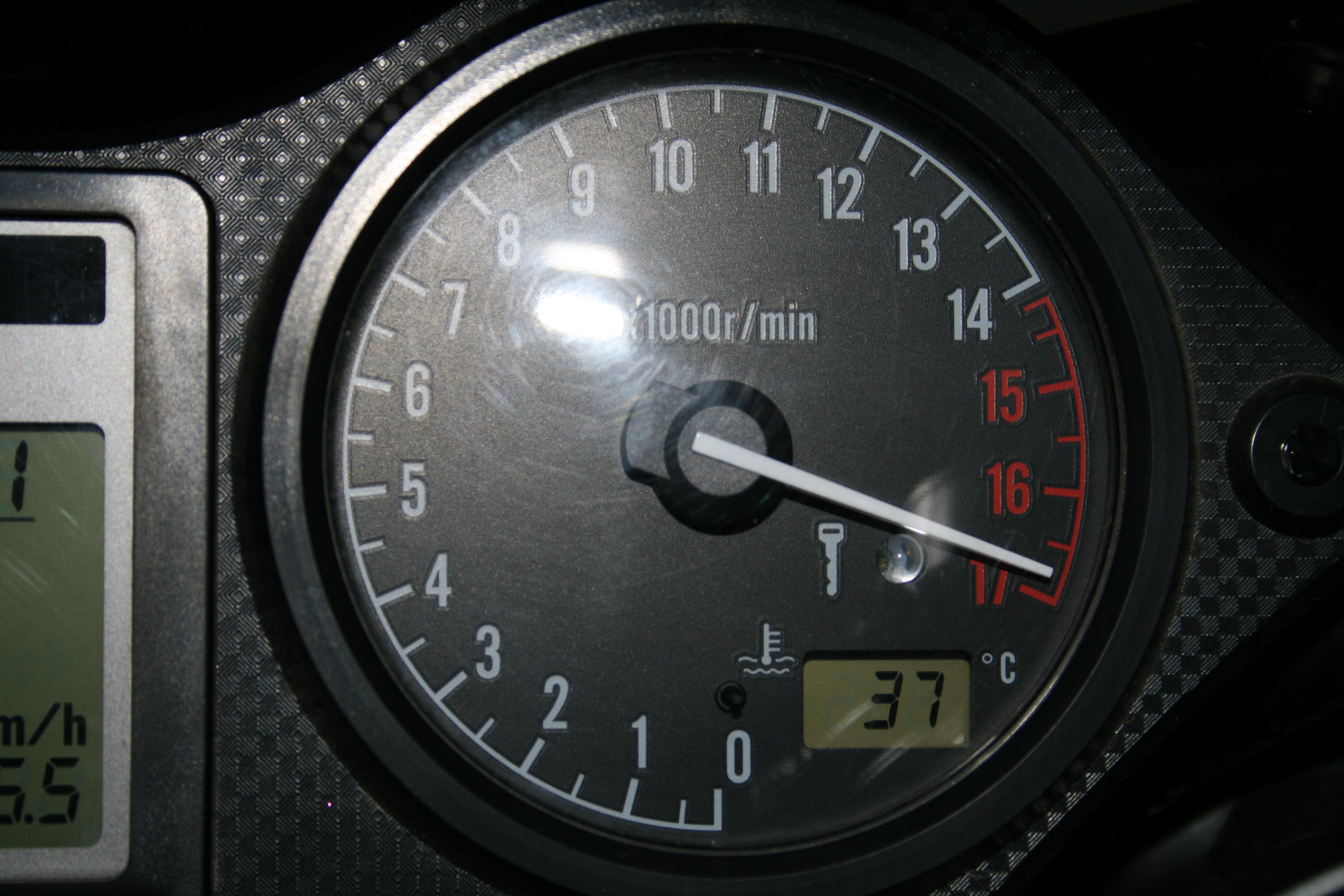 Honda CBR 600 (2005) tachometer way over redline.